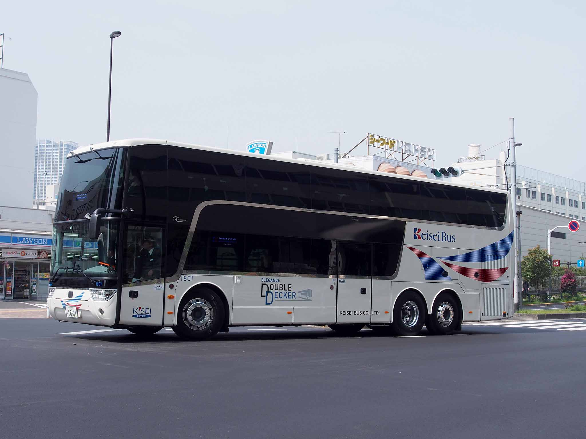 Fleet of Keisei Bus, operated as "Yurakucho Shuttle" between Kajibashi Parking Lot, Tokyo and Narita Airport since March 29, 2018. Model: Van Hool TDX24 Astromega Engine: Scania DC13 115 License plate: TKA230 A1801 Place: Shinonome, Koto Ward, Tokyo Japan